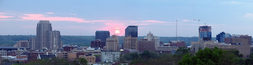 Downtown GR skyline from the east were I used to live.